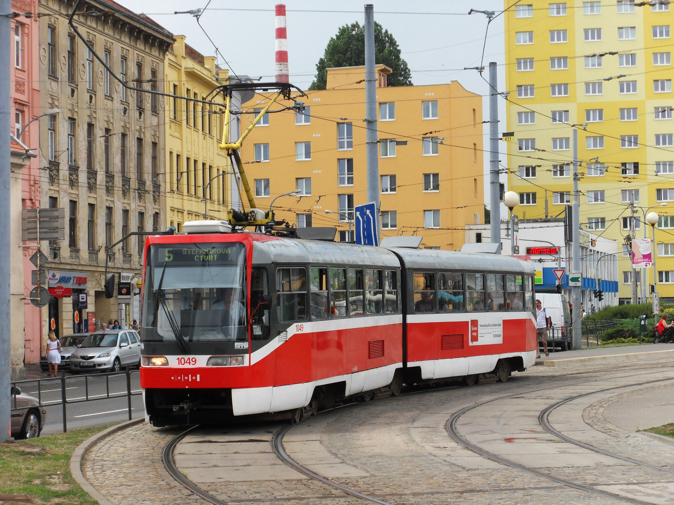 Tatra K2R.03-P tram No. 1049 of Dopravní podnik města Brna, Brno, Czech Republic